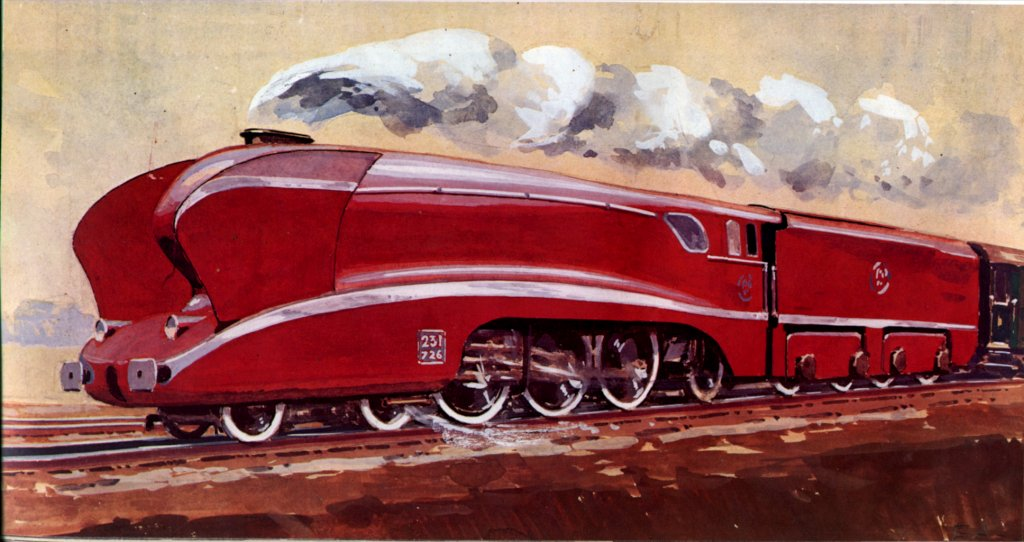 Locomotive PO 231 276, by EA Schefer.